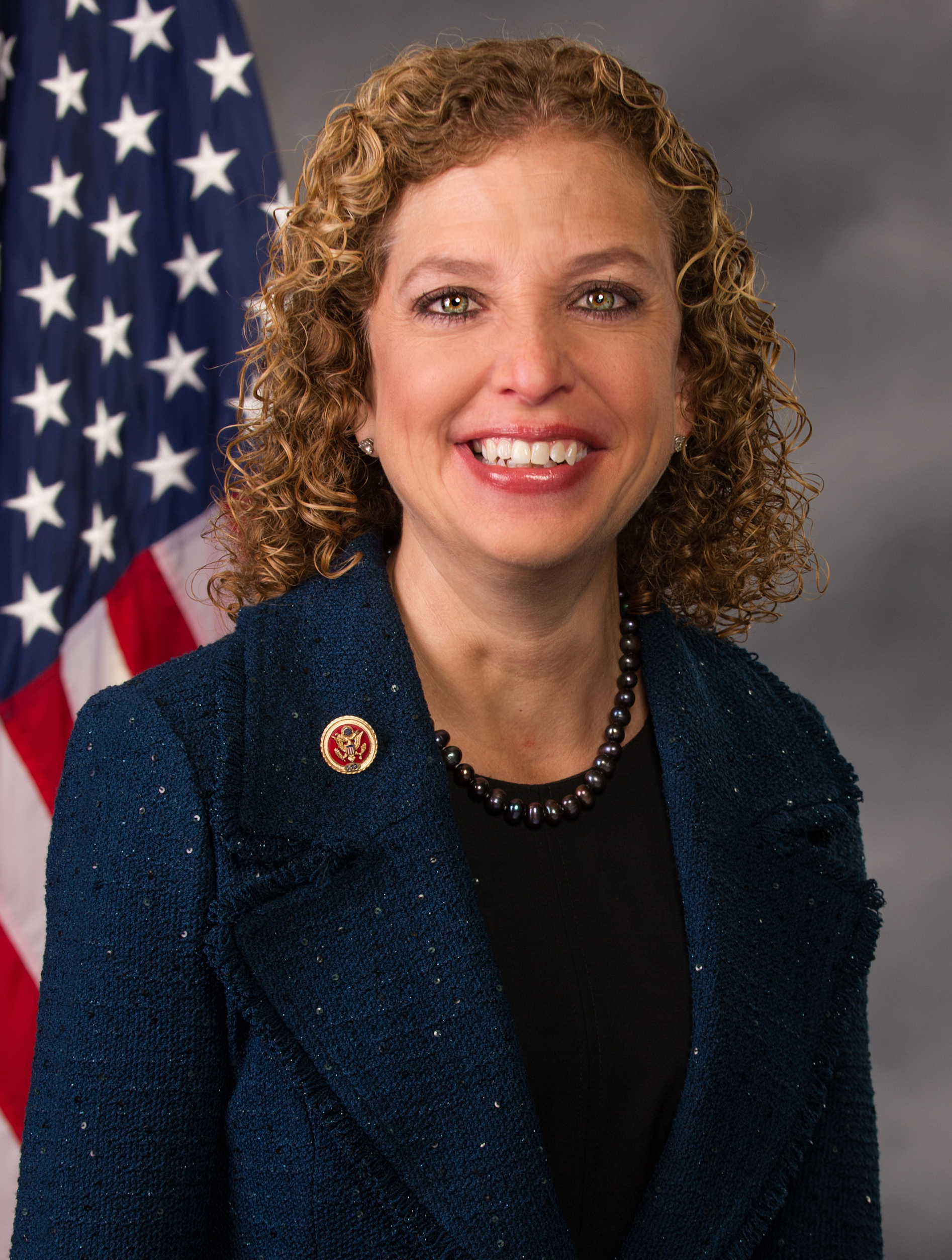 Debbie Wasserman Schultz, Congresswoman from Florida's 20th congressional district